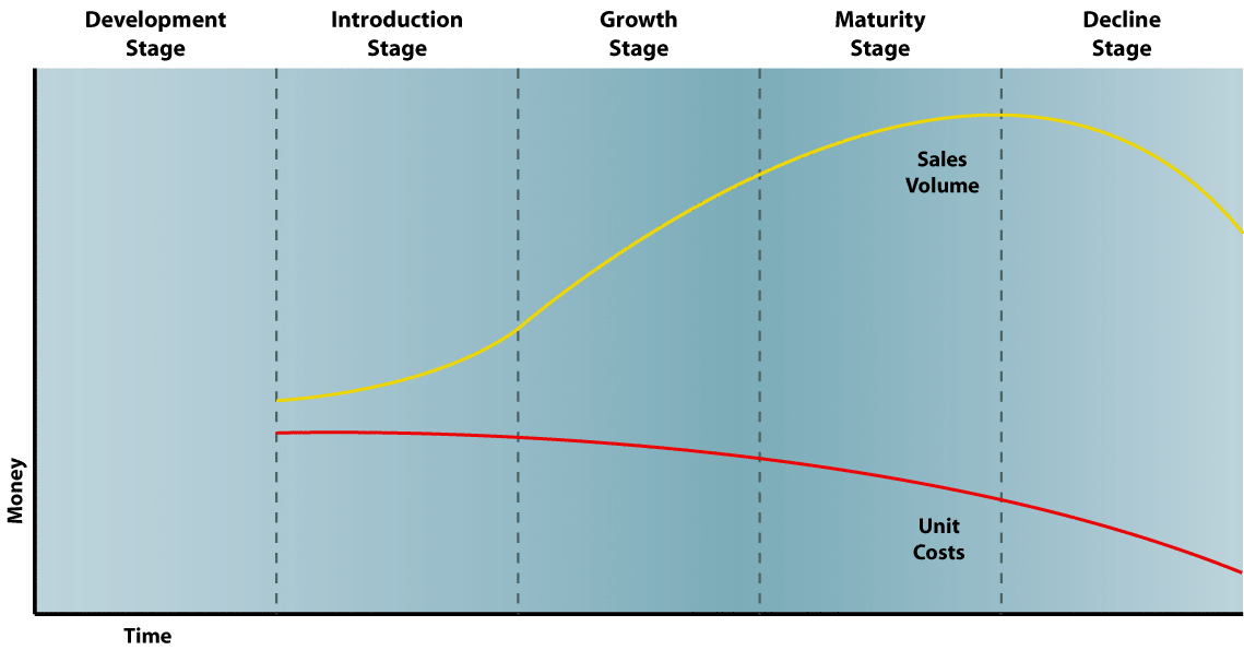 product life cycle